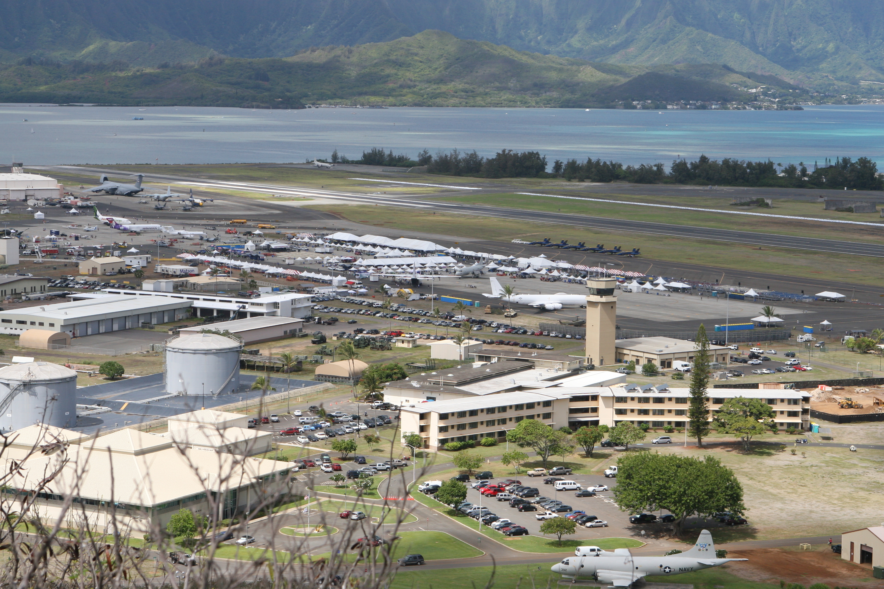 KANEOHE BAY, Hawaii (Sept. 24, 2010) An aerial view of Marine Corps Base Hawaii at Kaneohe Bay. (U.S. Marine Corps photo by Lance Cpl. Jody Lee Smith/Released)